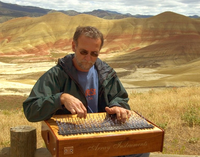 Patrick Hadley playing an array mbira. Photo taken in the Painted Hills, approximately 9 miles northwest of Mitchell, United States, with a Nikon D70 digital camera.